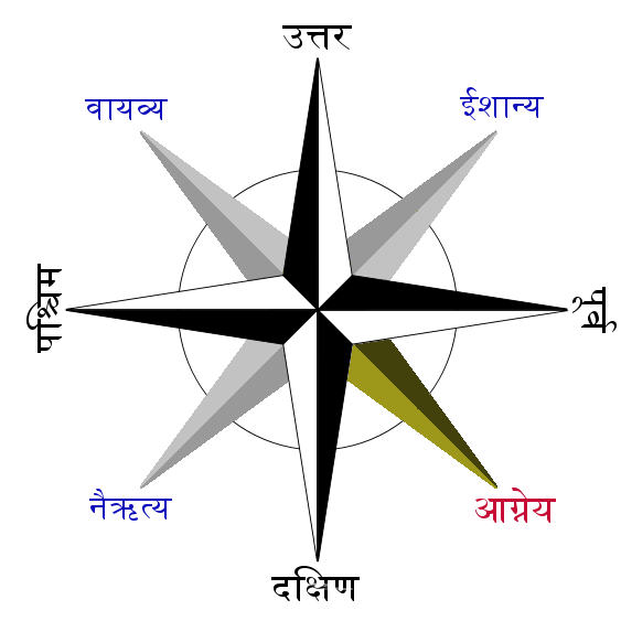 Southwest